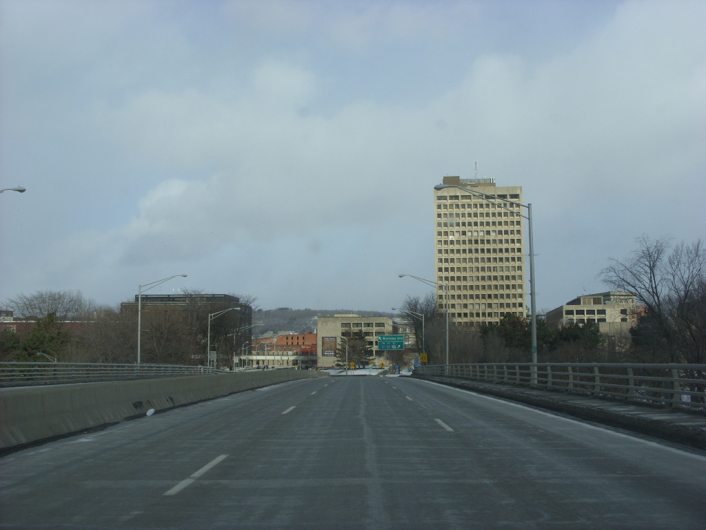 Entering downtown Binghamton on New York State Route 434 eastbound.